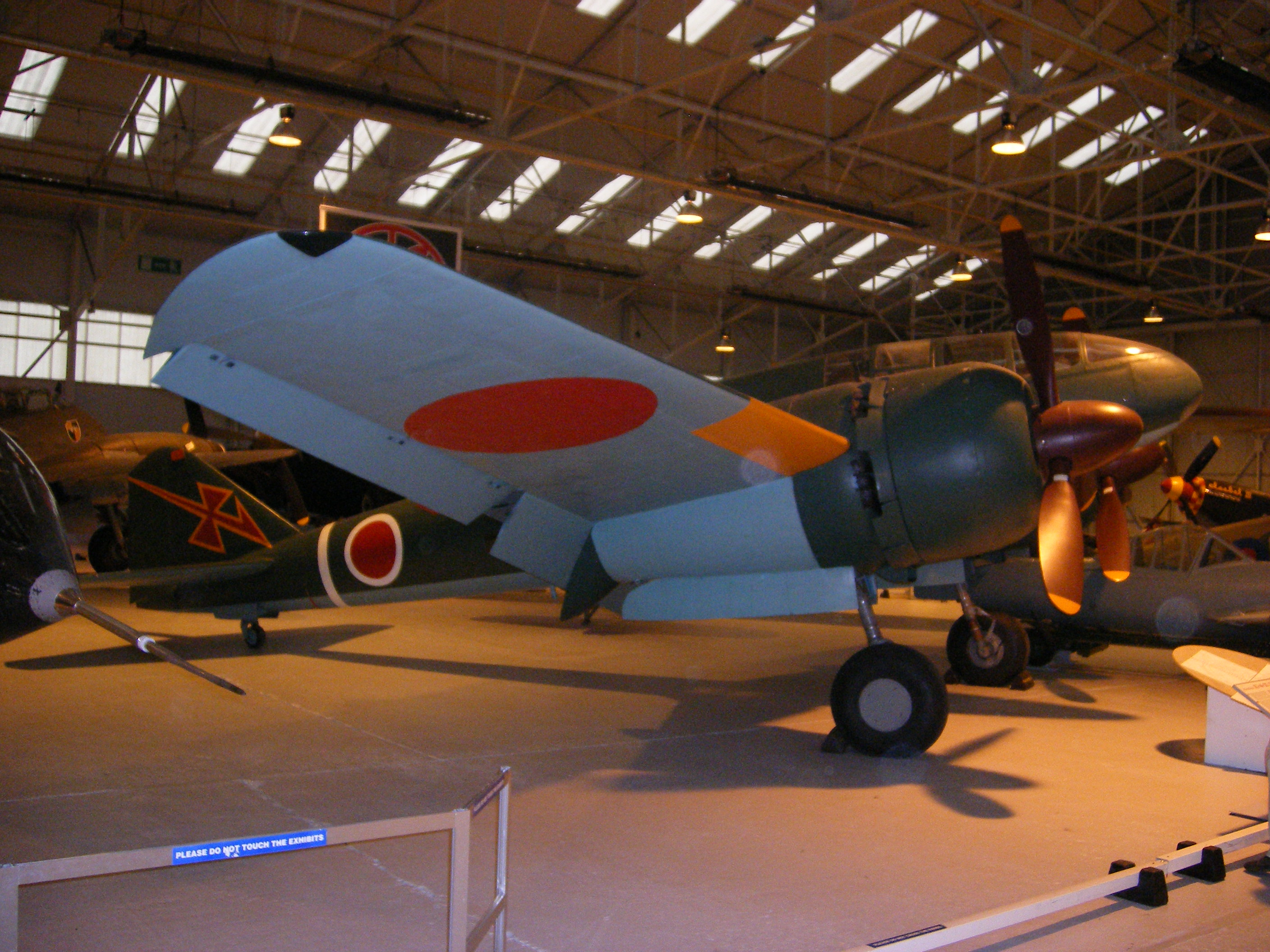 Mitsubishi Ki-46-II Type 100-55 "Dinah" at Royal Air Force Museum Cosford.